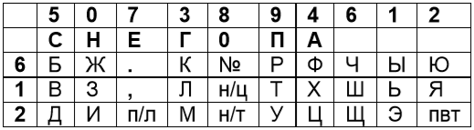 An illustration to the eighth step of VIC ciphering algorithm